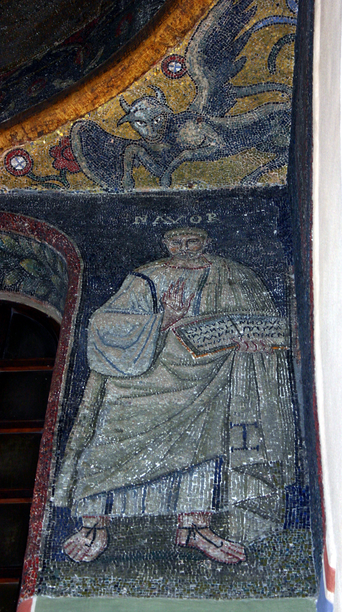 Milan (Italy). Saint Nabor and, above, the ox symbolizing evangelist Luke. Detail from the dome of the shrine of San Vittore in ciel d'oro, now a chapel of Sant'Ambrogio basilica. The building dates back to the 4th century, the mosaic to the second half of the 5th century. Picture by Giovanni Dall'Orto, April 25 2007.